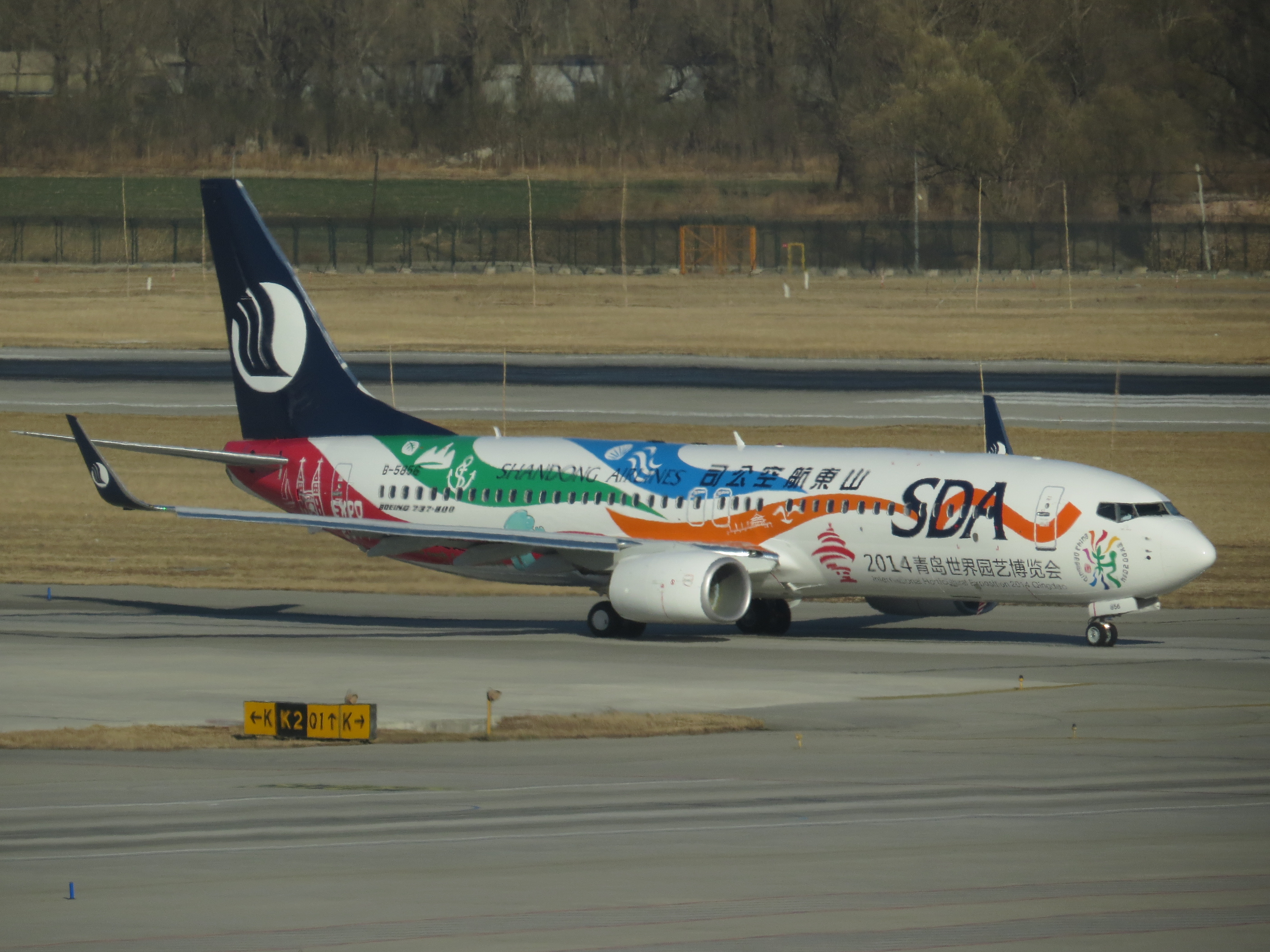 CDG4854 to Yantai. Shandong Airlines has several special liveries, this one promoting 2014 World Horticultural Exposition in Qingdao, Shandong.